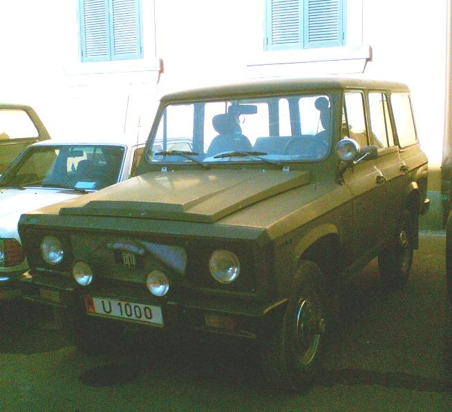 Romanian made ARO jeep formerly used by the Albanian military